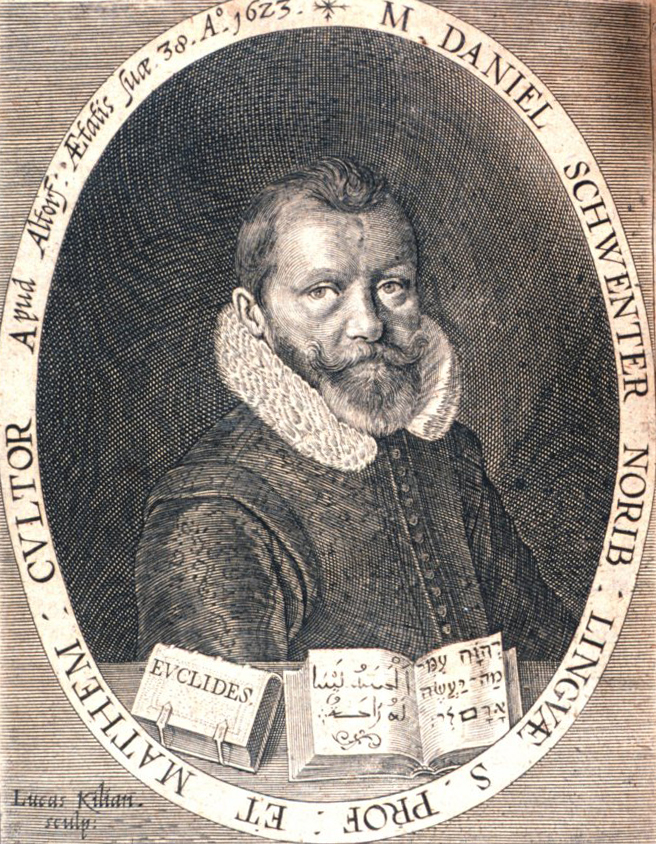 Portrait of Daniel Schwenter, scholar; a mathematician and linguist familiar with Greek, Latin, Arabic, etc.